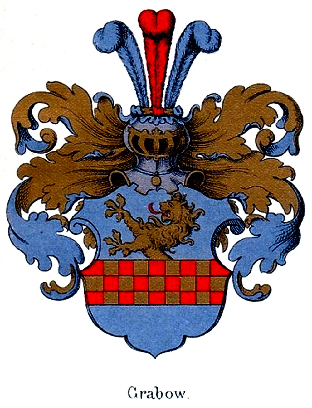 Coat of arms of the Grabow family